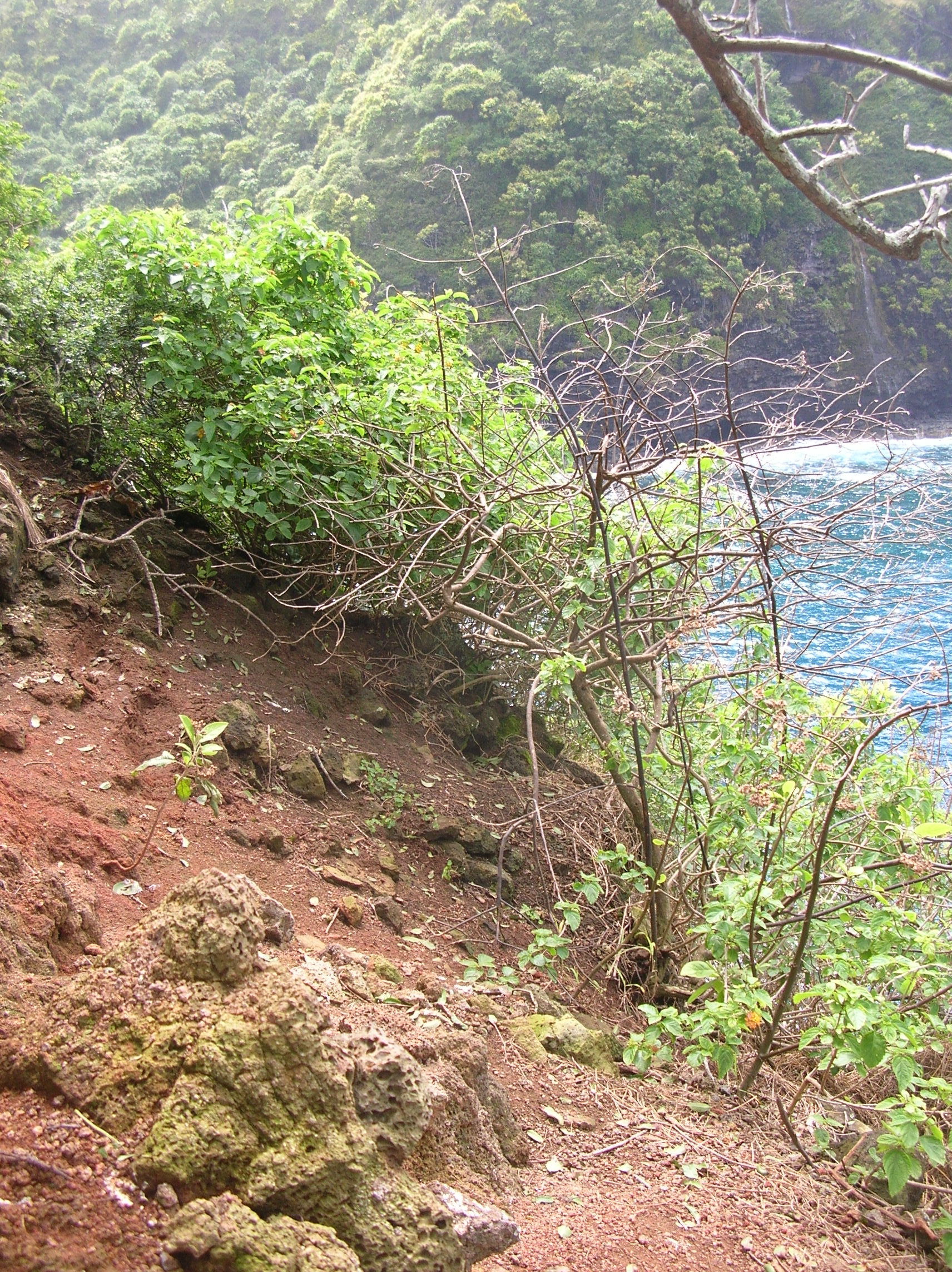 Solanum americanum (habitat). Location: Maui, Keopuka